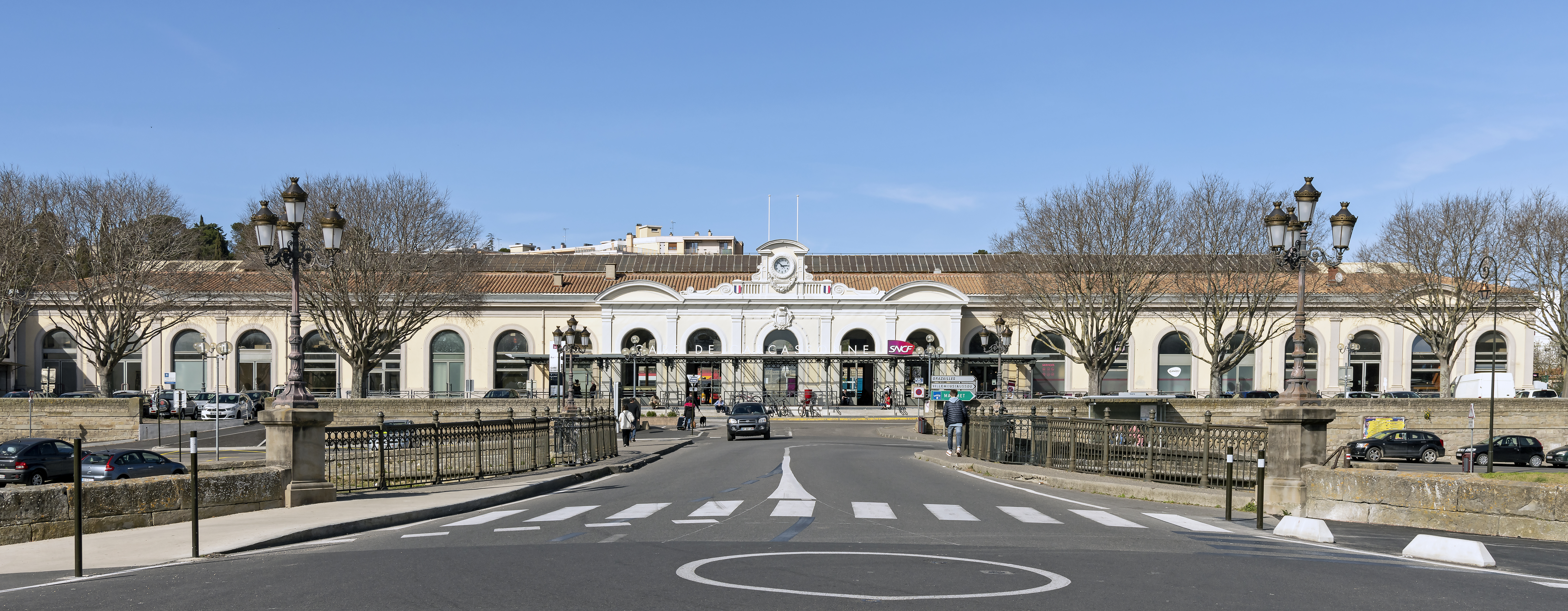 Facade of the station seen from the Marengo bridge